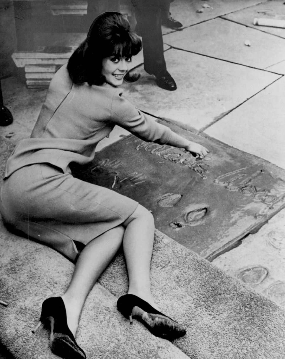 Photo of Natalie Wood at her Grauman's Chinese Theatre imprint ceremony in 1961.